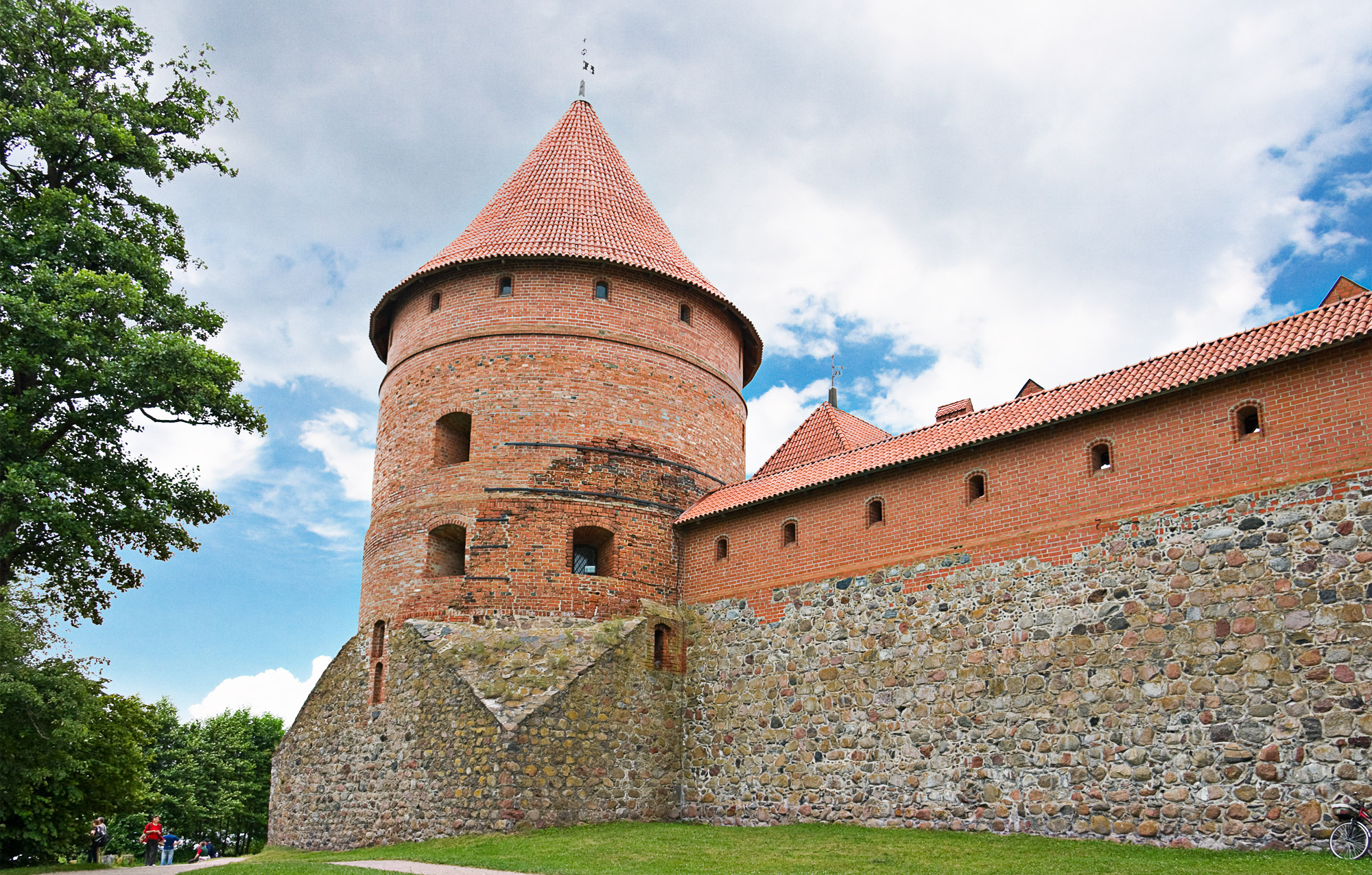 Trakai Island Castle, Lithuania